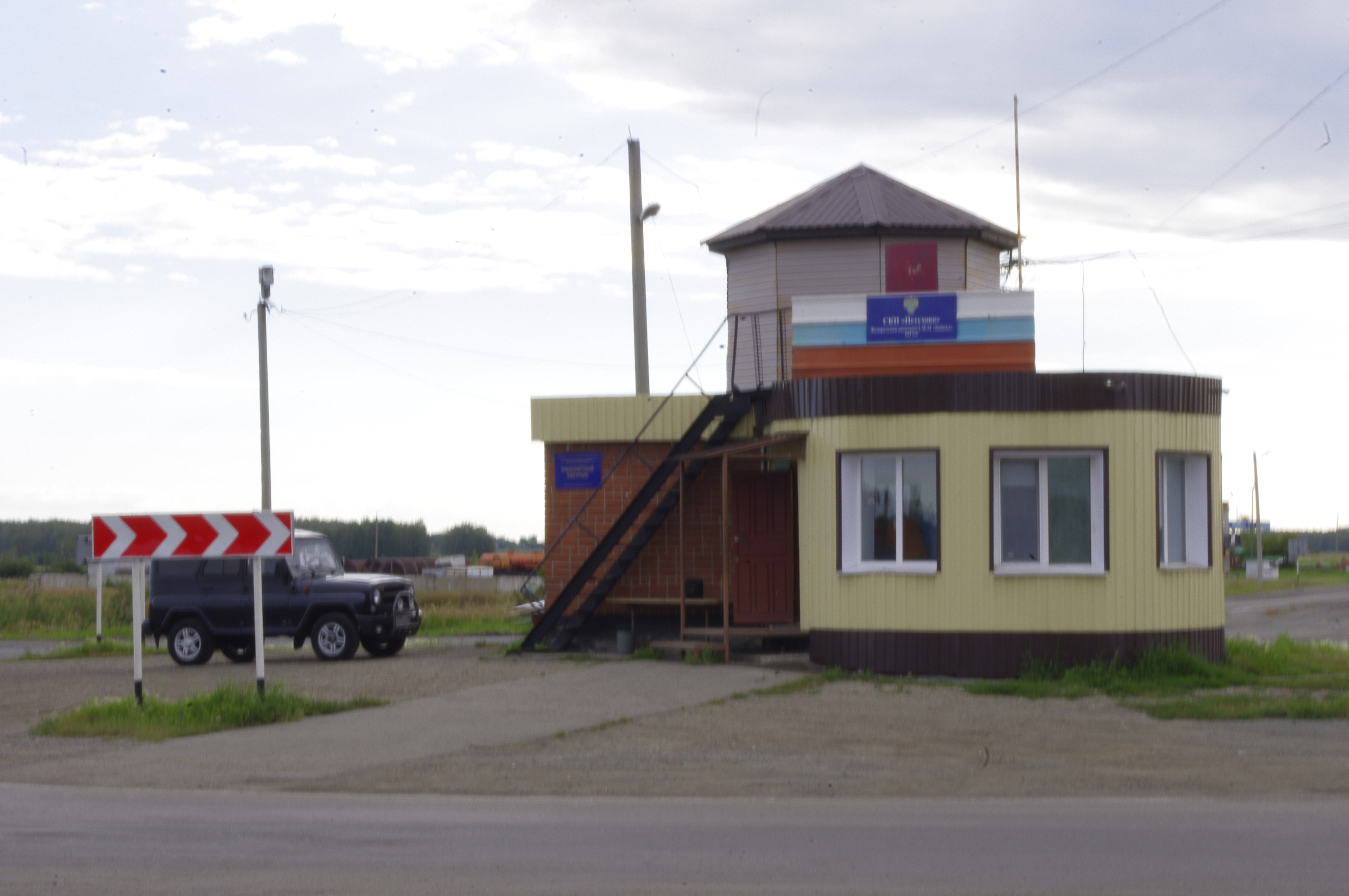 Border control office on Russia-Kazakshstan border in Petukhovo, Kurgan Oblast (Russian side) - M51 Baikal road